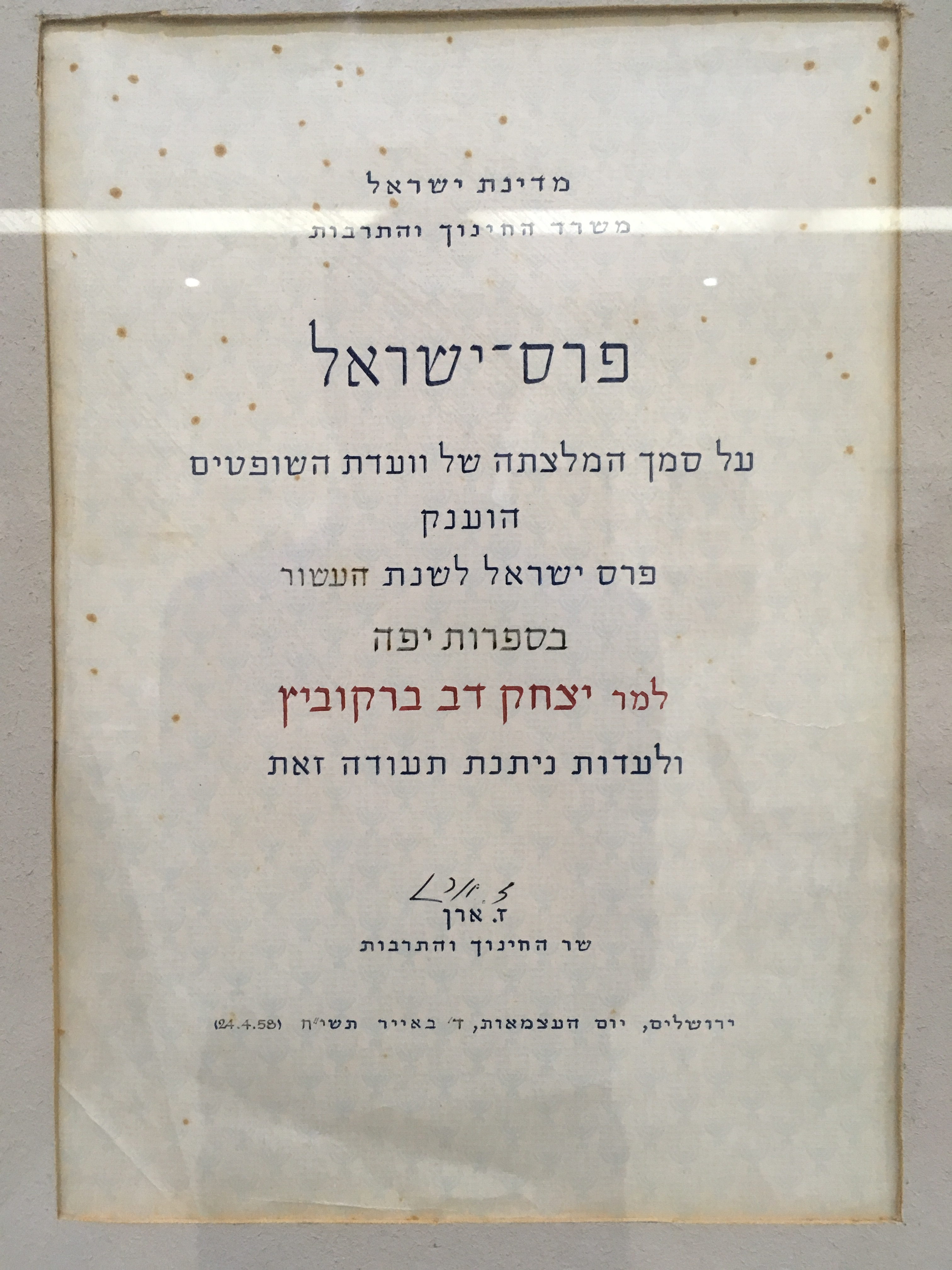 Dov Berkowitz Israel Prize Certificate as displayed in Sholem Aleichem archives in Tel Aviv